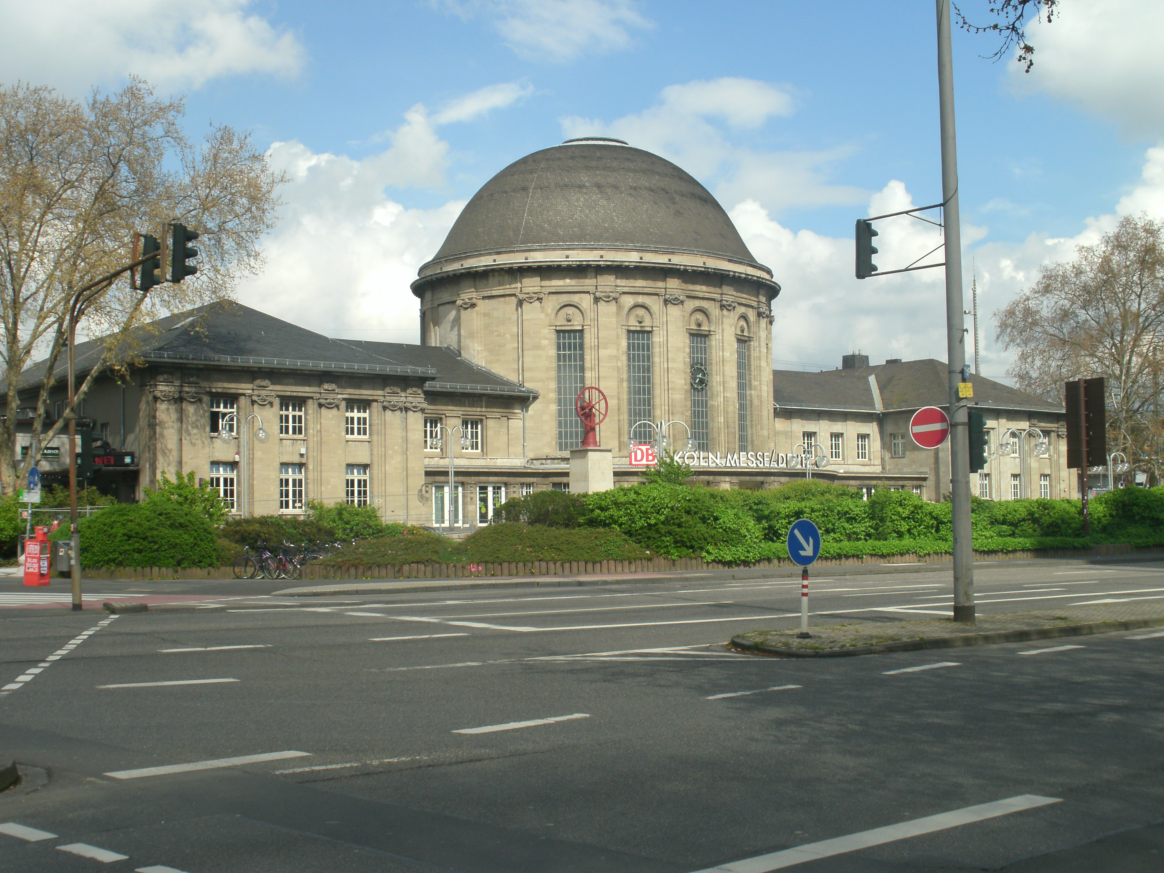 Train station Cologne Deutz, view from Ottoplatz